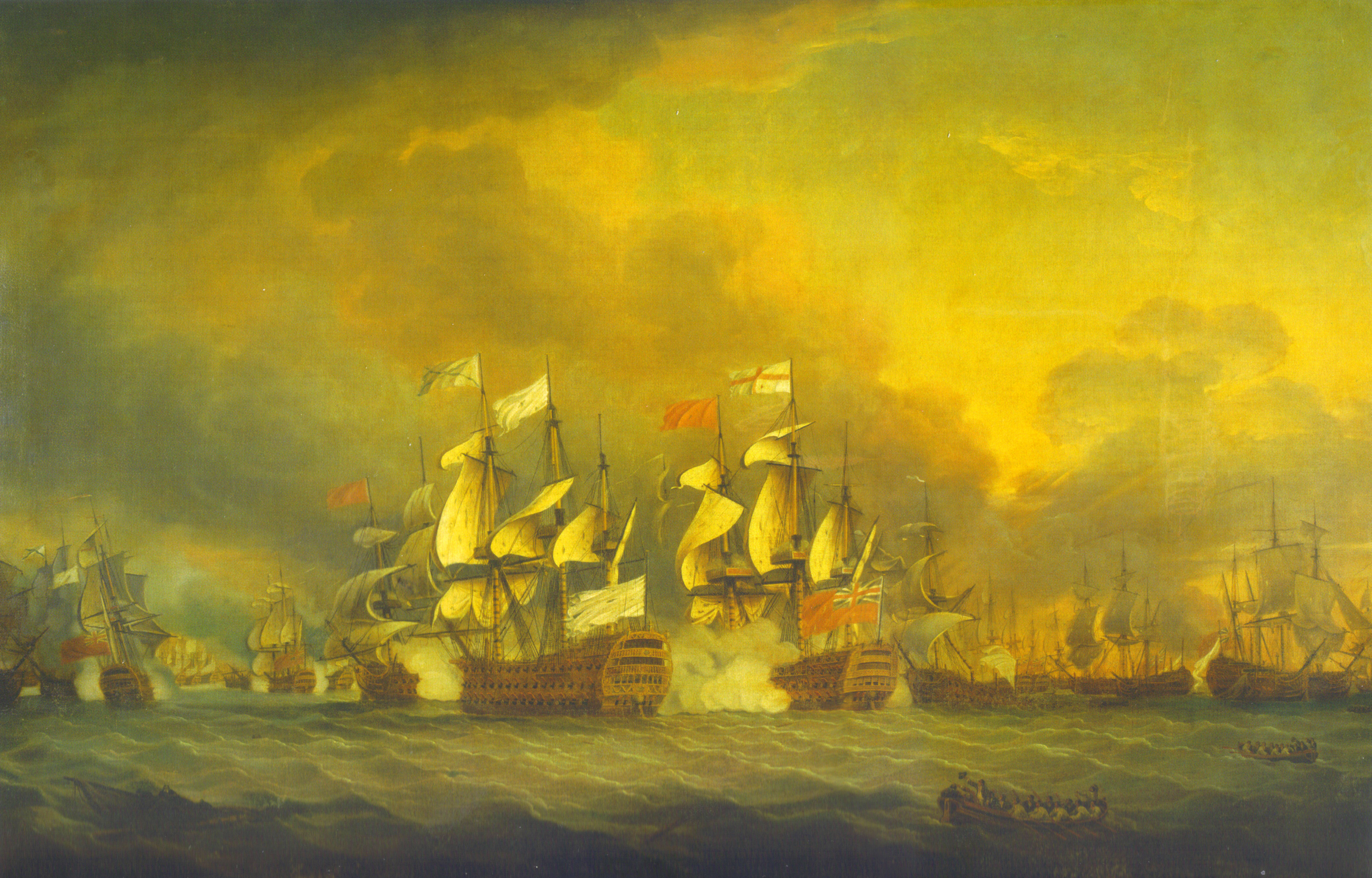 Battle of the Saintes. April 12, 1782. Center: the French flagship Ville de Paris in engagement with the HMS Barfleur.